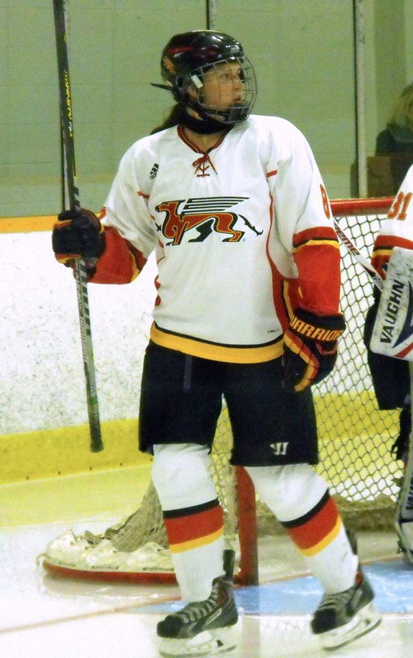 This photo was taken by Devan Mighton during the 2014-15 CIS season.